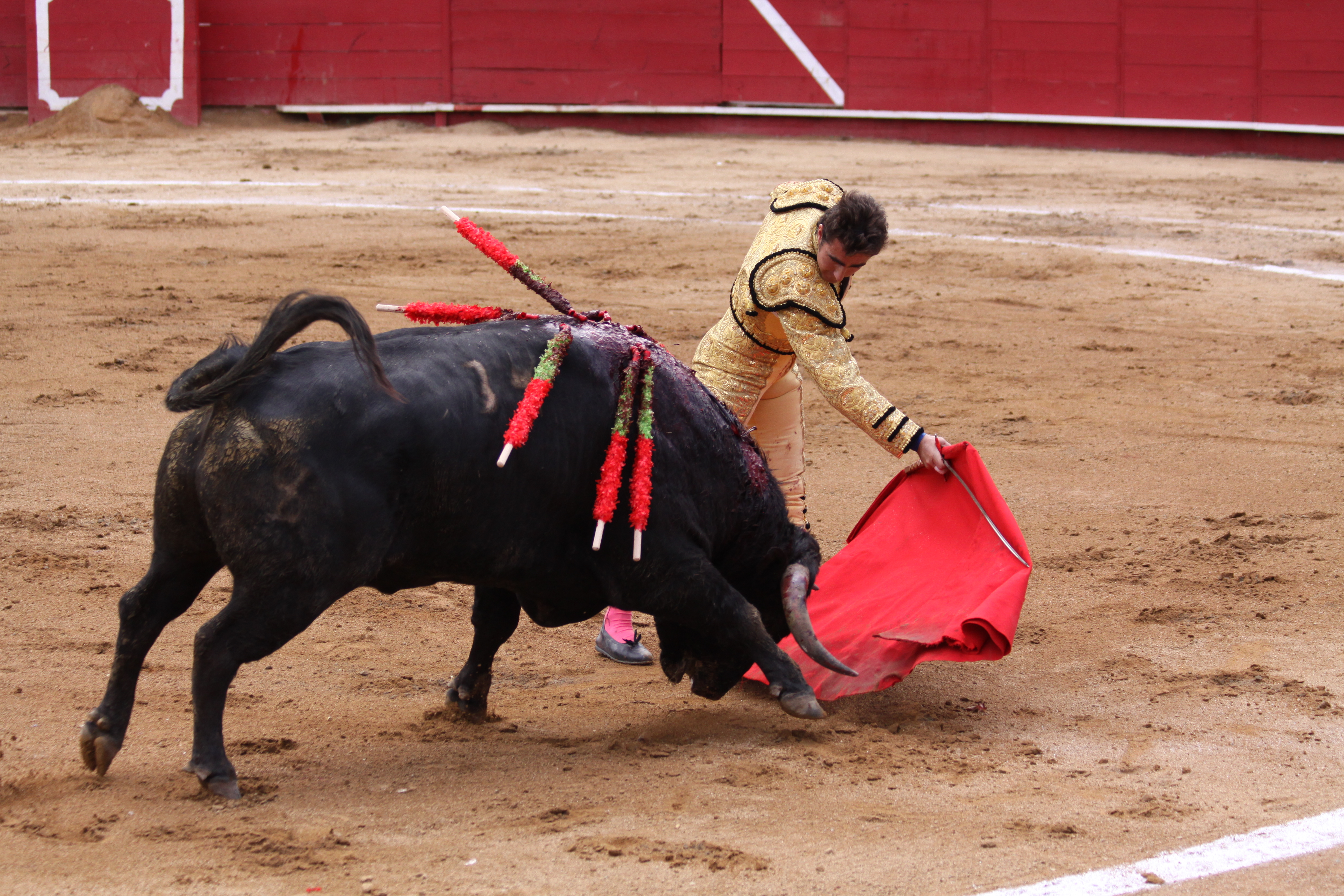 David Fandila «El Fandi»